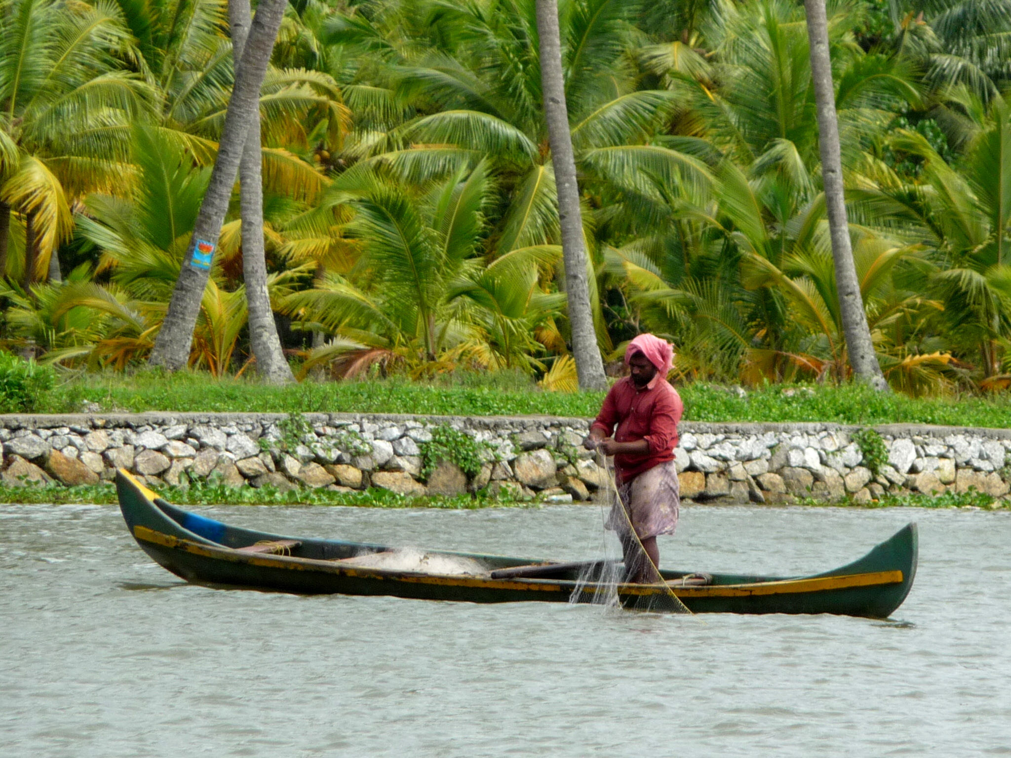 Fisherman on canals in Kerala